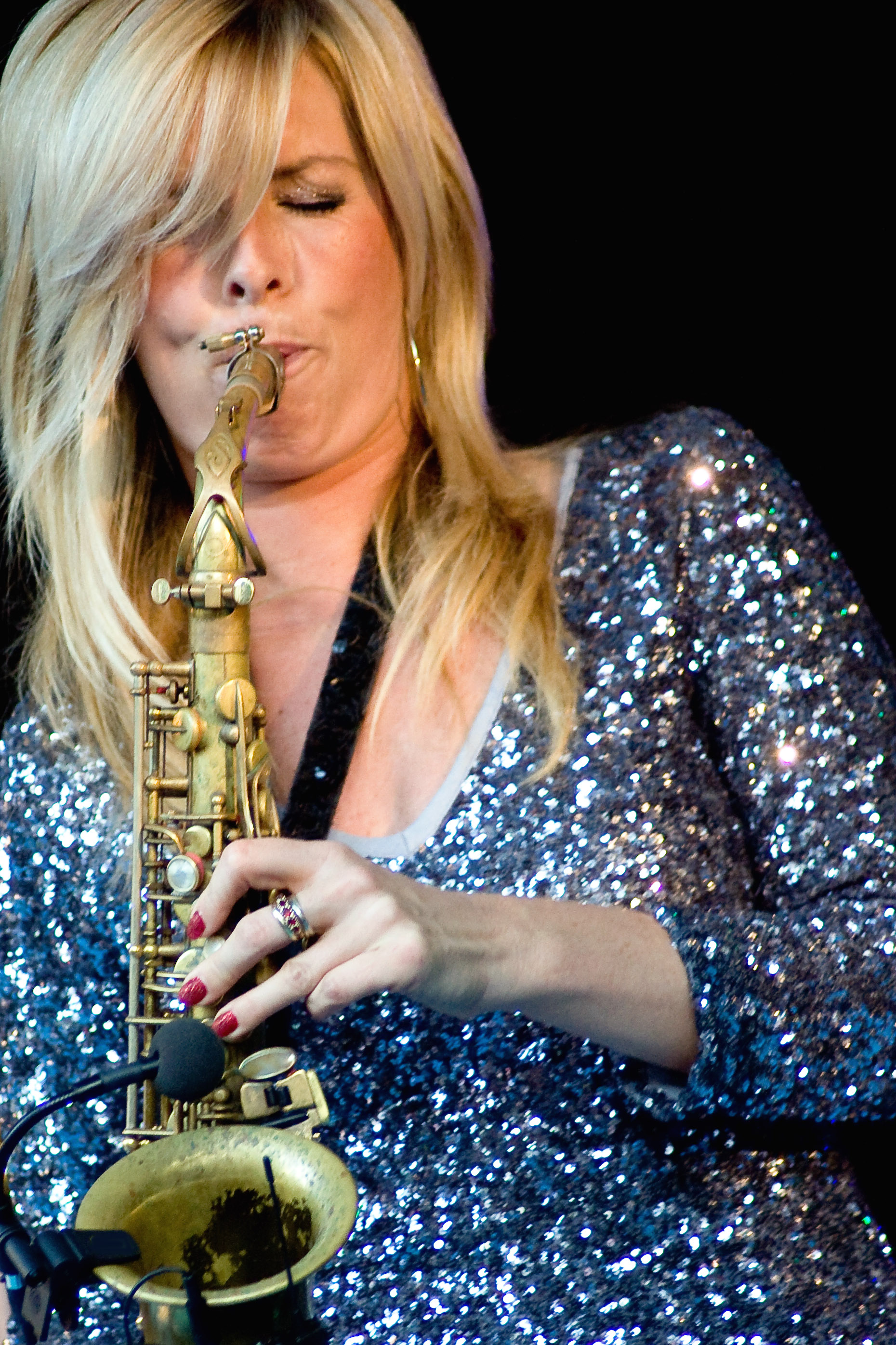 Candy Dulfer